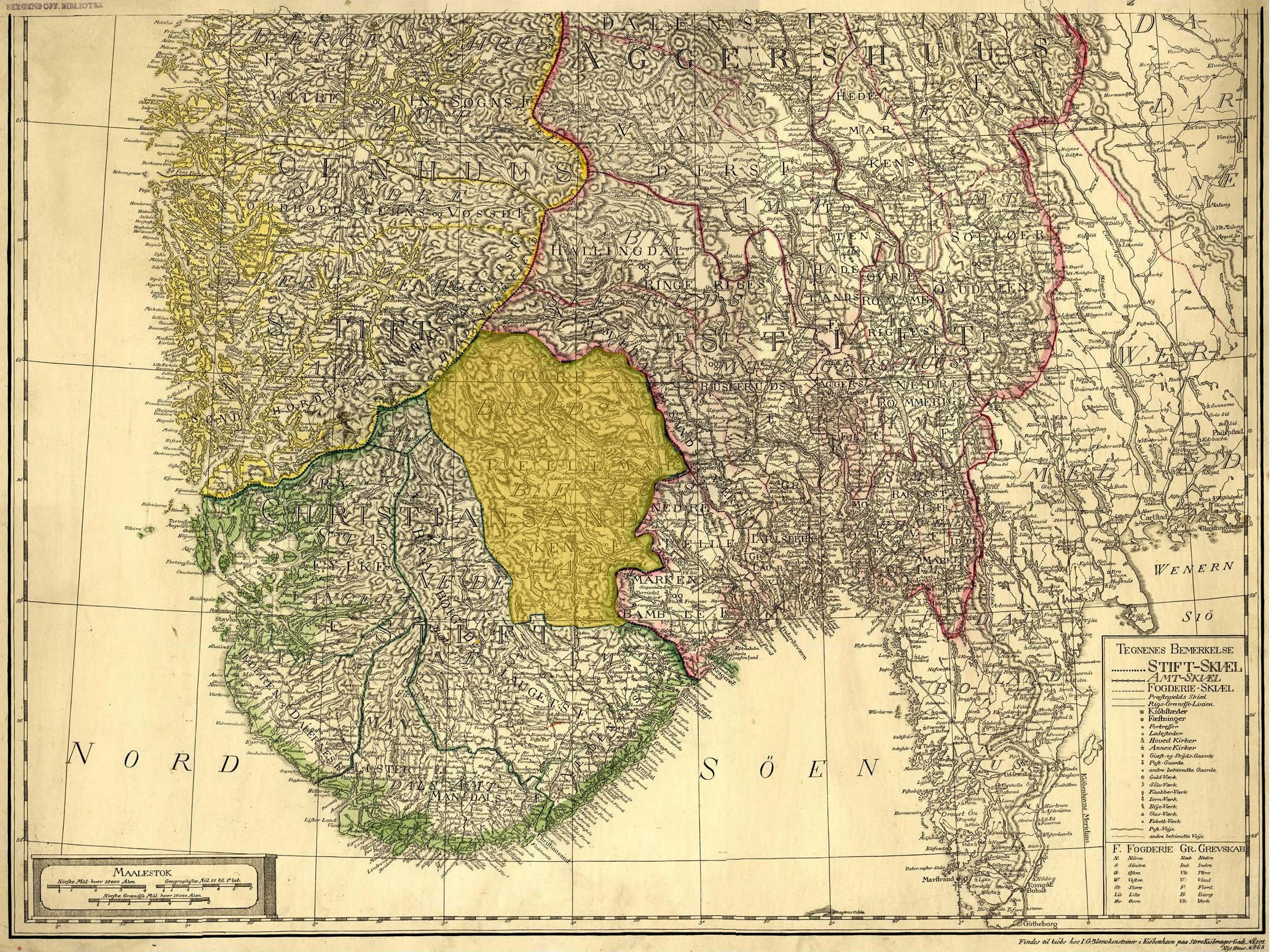 Ovre Tellemarkens fogderi. Made from Pontoppidans map from 1785